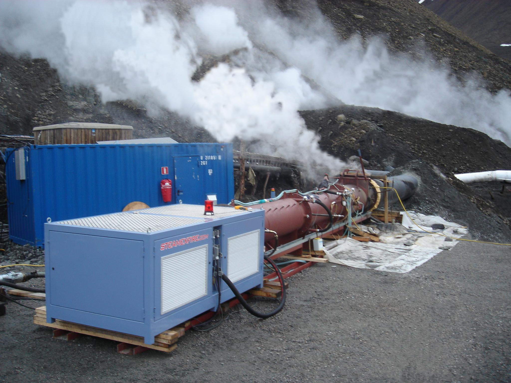 Steamexfire in action, extinguishing a coalmine fire at Spitsbergen.